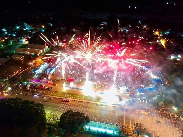 Valencia City, Bukidnon Golden Harvest 19th Charter Day Fireworks Display